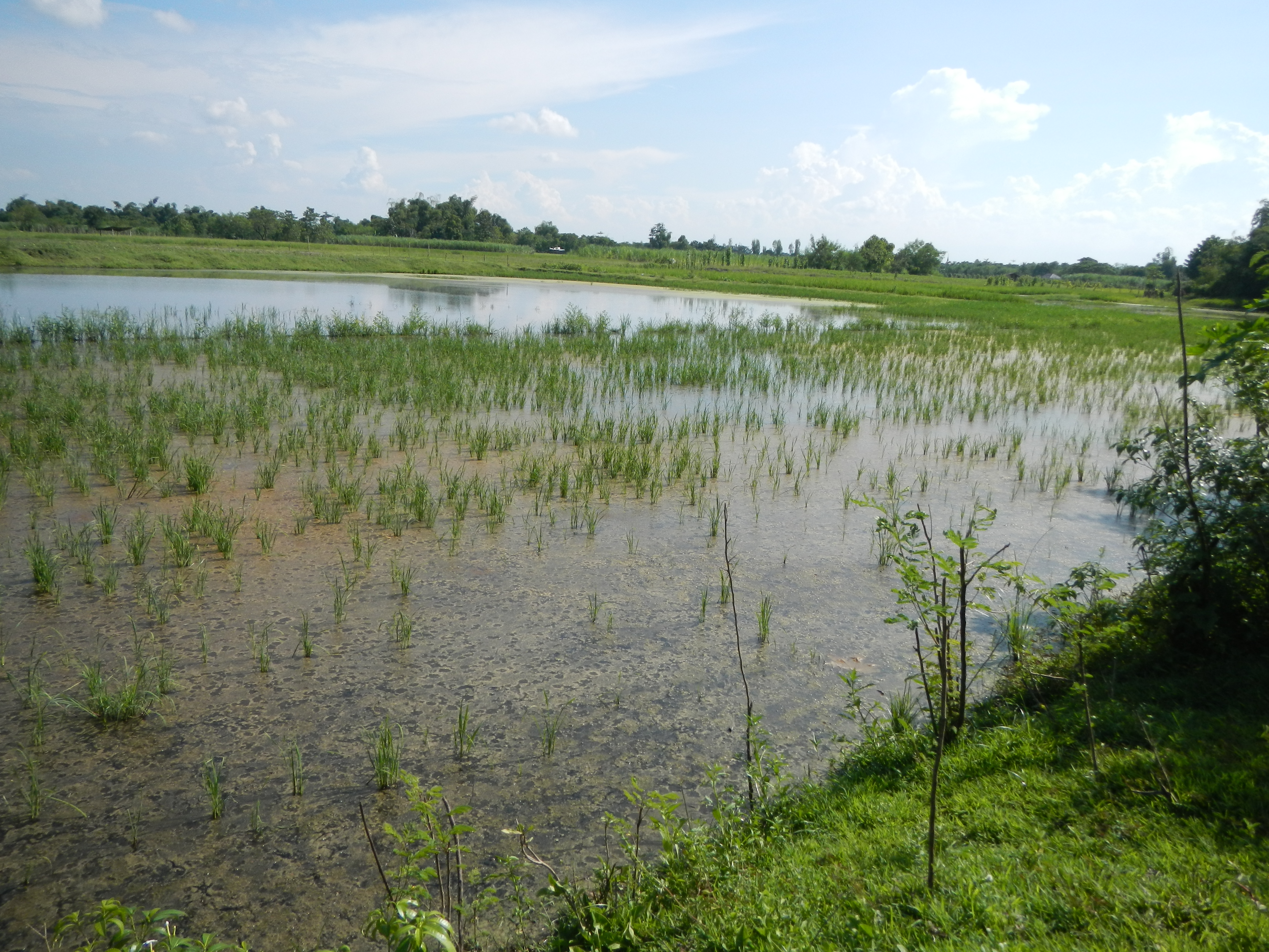 Barangay Cardona, Welcome Arch is located in Matayuncab, Welcome Arch is in turn, located in San Antonio, which is beside and accessed from Town Proper of Poblacion 1, Gerona, Tarlac, Tarlac Province where the Welcome to Gerona, Tarlac, Agricultural Monument is, in Gerona Junction, Crossing and Intersection, along MacArthur Highway or Manila North Road, MacArthur Highway (Tarlac City-Gerona, Tarlac section) connected to Poblacion 2, and Poblacion 3, Gerona, Tarlac, Tarlac Province.